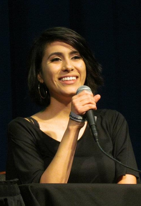 Voice Actress Cristina Valenzuela at Colossalcon 2012, Sandusky, Ohio.